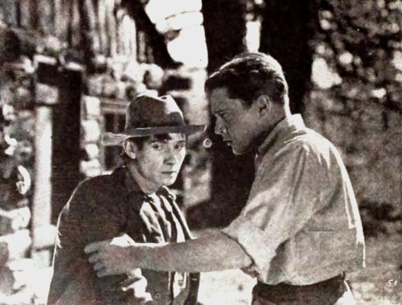 Still from the American drama film The Sin of Martha Queed (1921) with Niles Welch, on page 71 of the October 29, 1921 Exhibitors Herald.